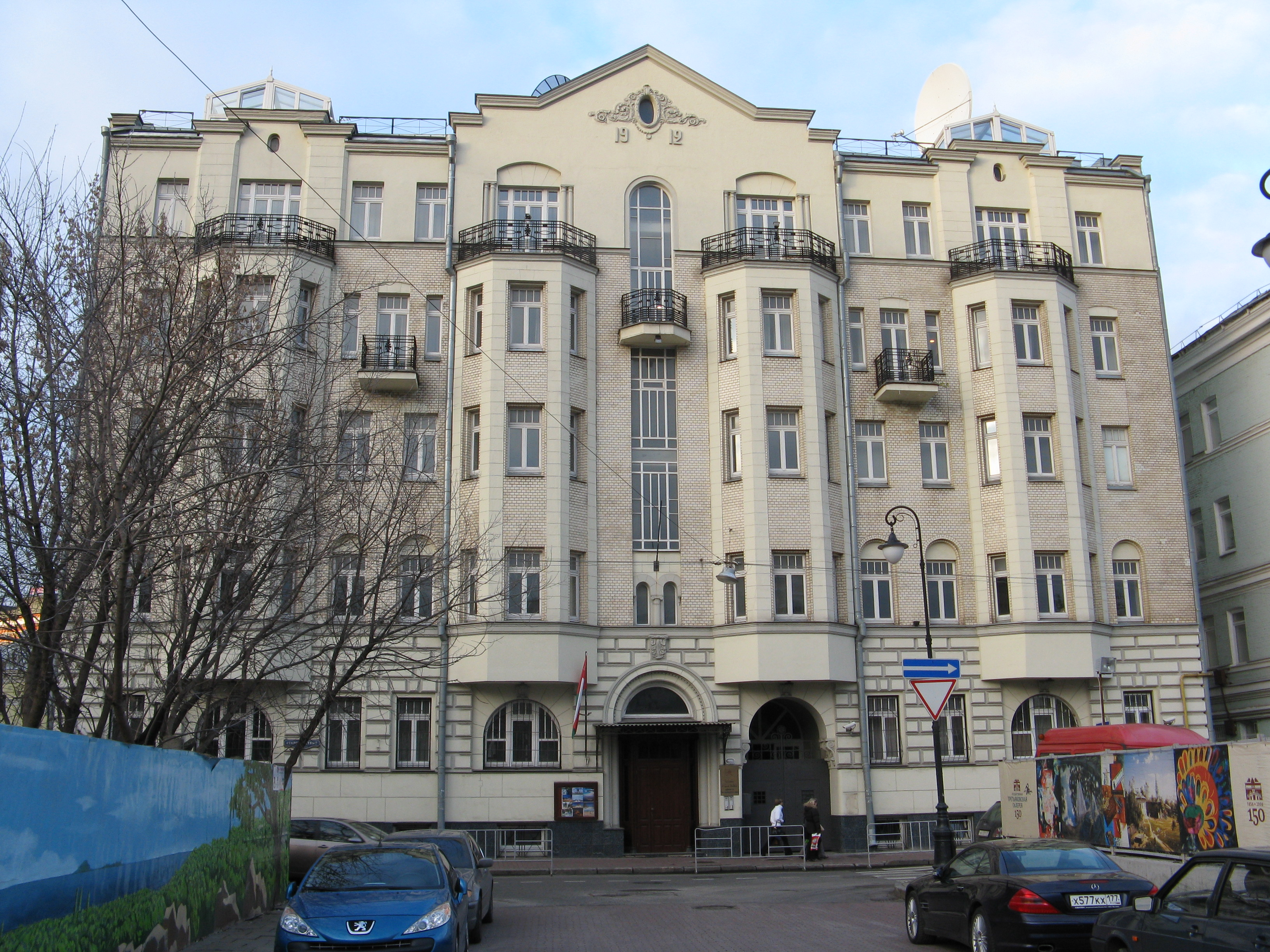 Staromonetniy pereulok 9, Moscow, Russia. Embassy of Oman.